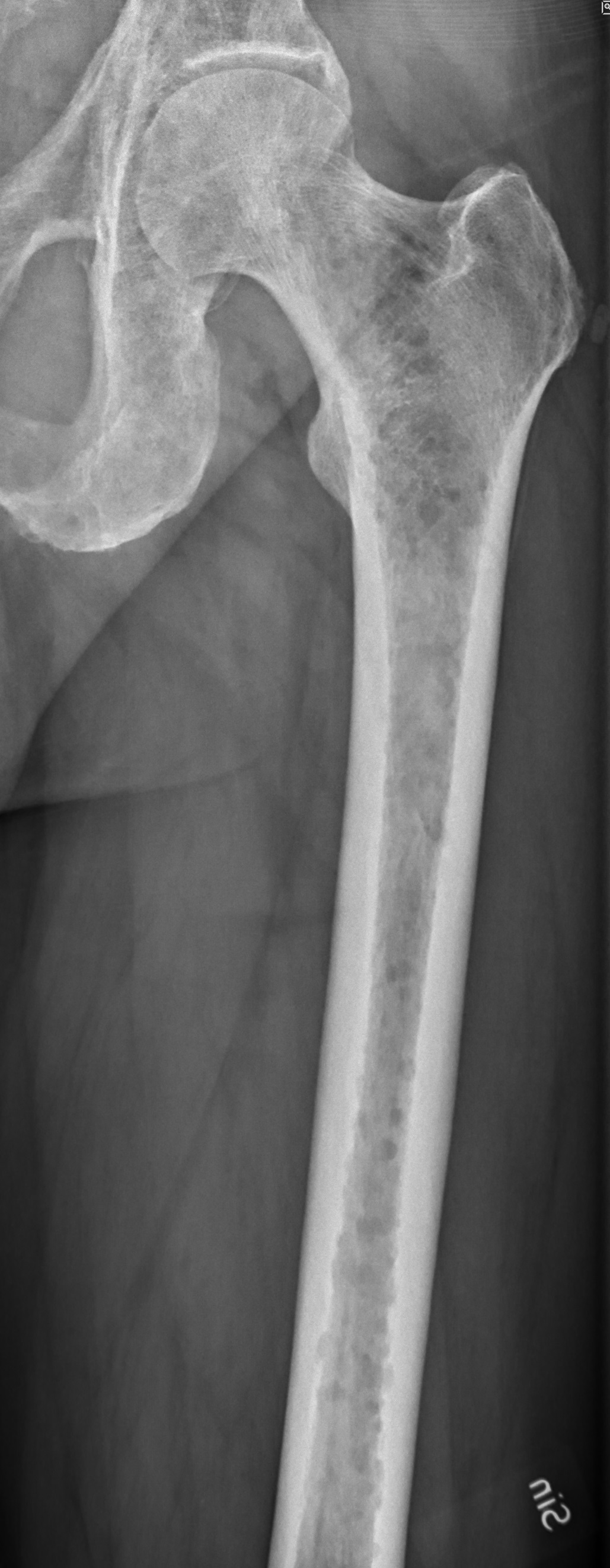 X-ray of the left femur of a 62 year old man with elevated myeloma protein. It shows typical lytic lesions of multiple myeloma.